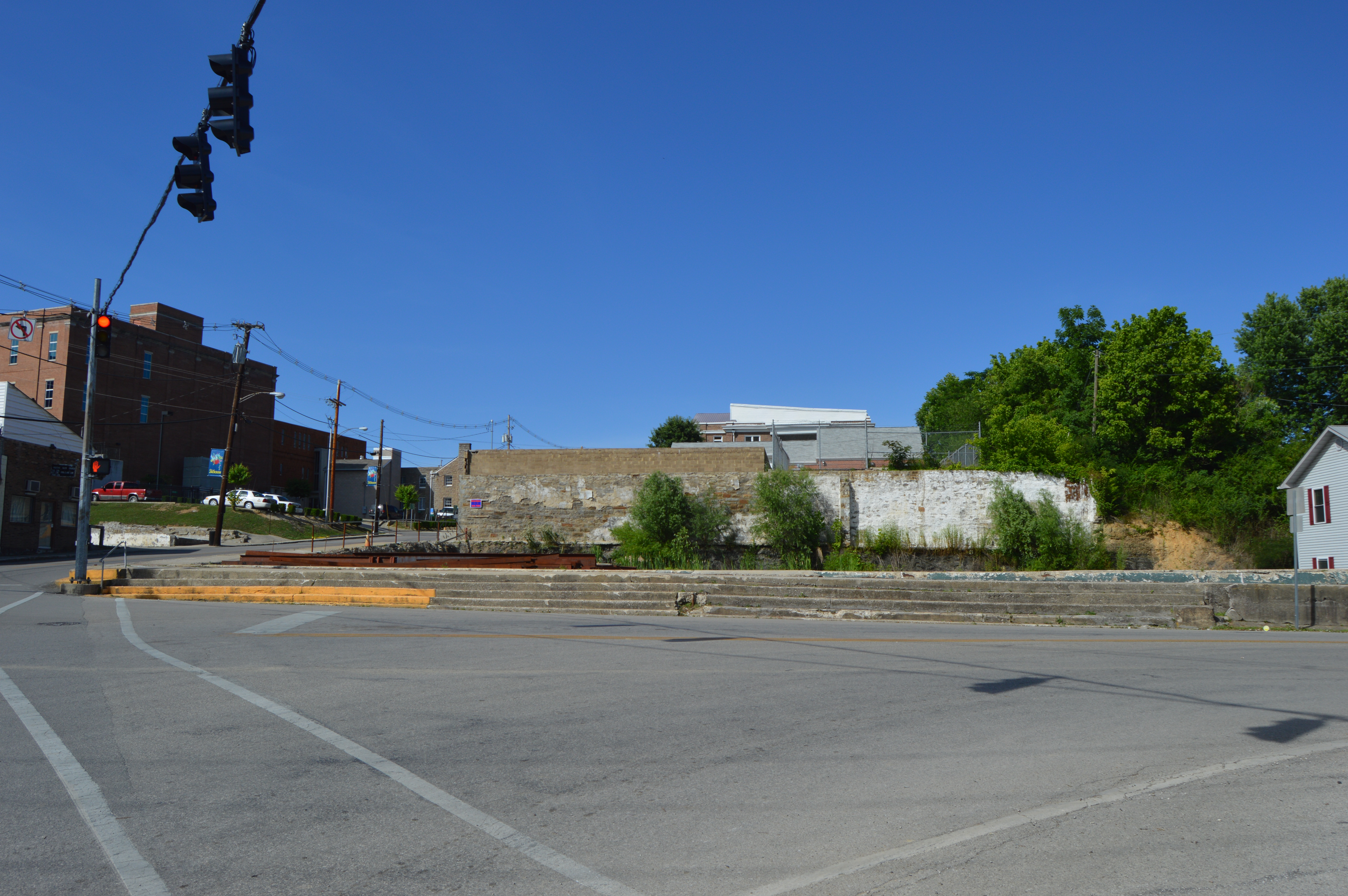 The empty lot on the eastern corner of College Avenue (Kentucky Route 2463) and Broadway in Jackson, Kentucky, United States. This was formerly the location of the Stacey Hotel, which was listed on the National Register of Historic Places in 1986; although destroyed, it has not yet been delisted from the Register.